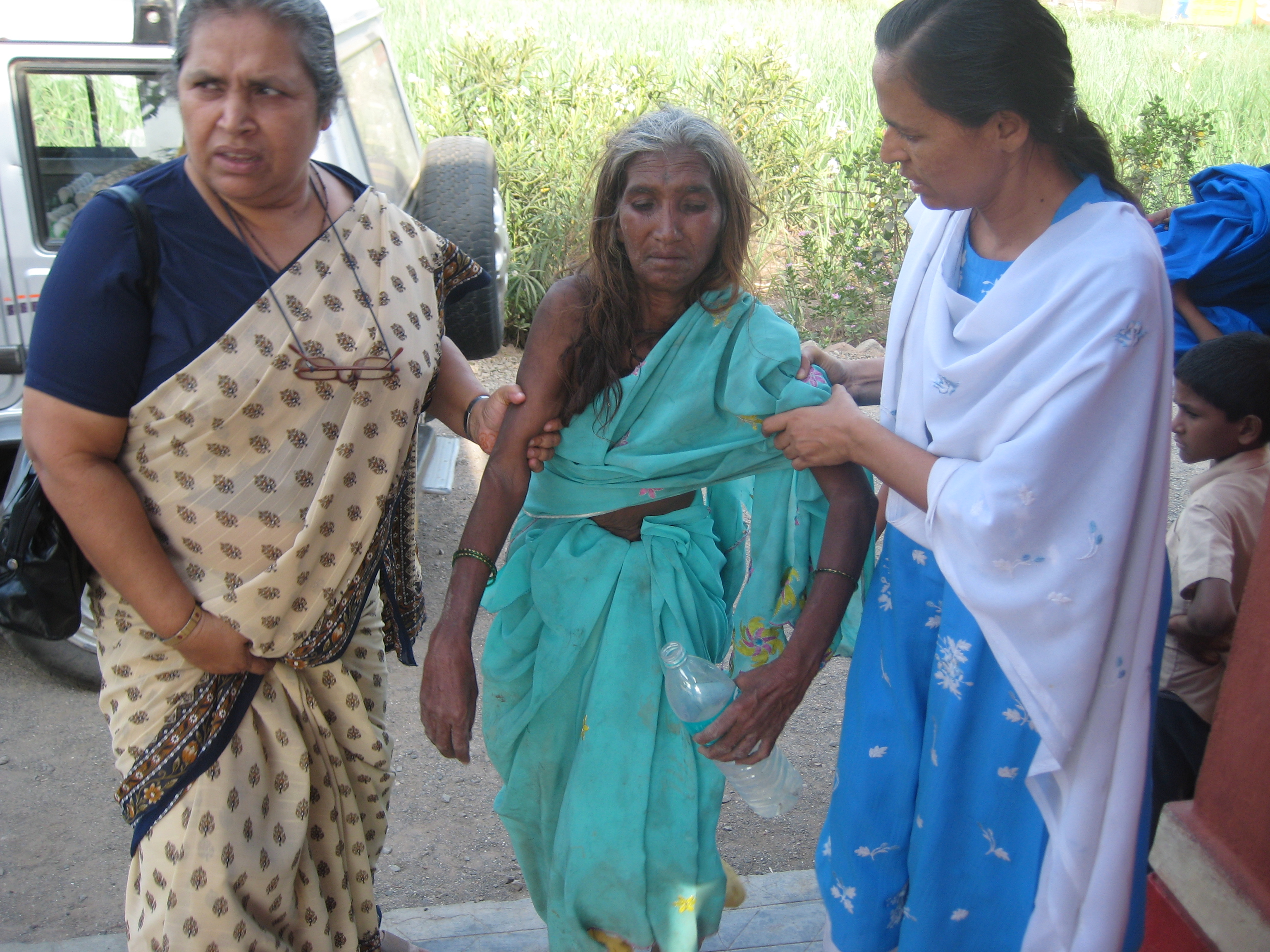 Maher founder assisting a patient who was found living on the street